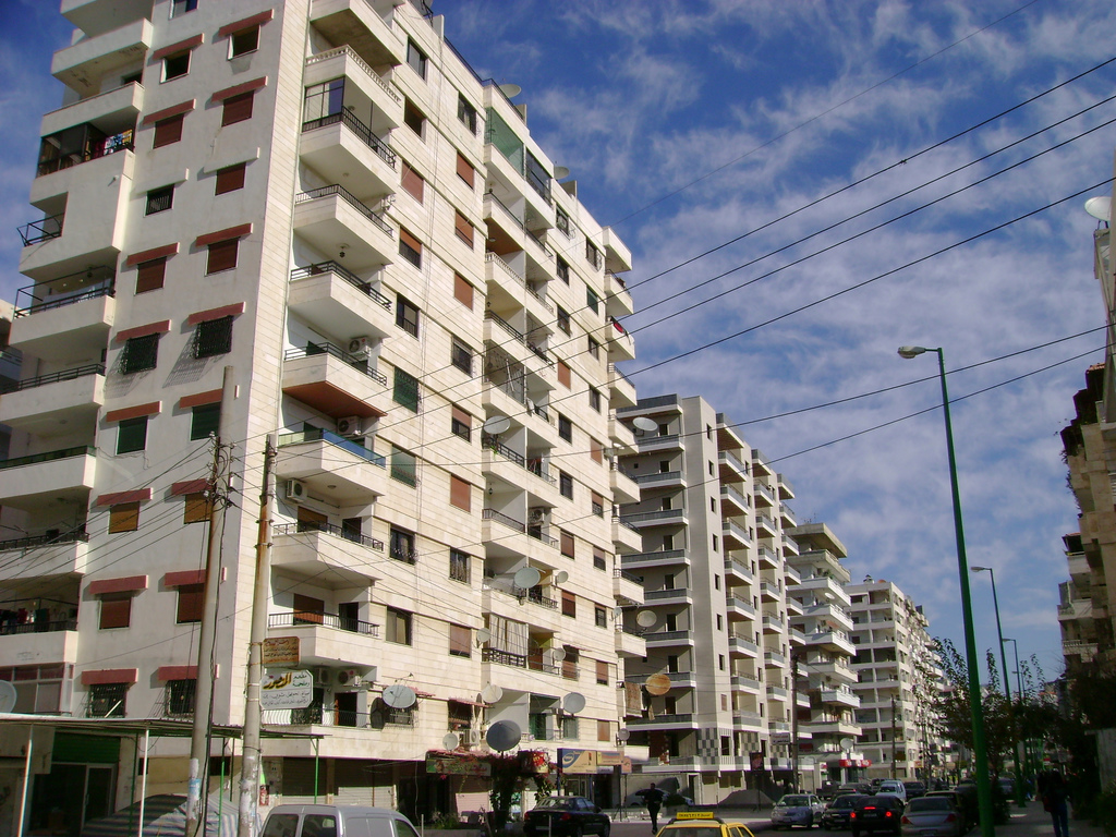 Street scene in Latakia, Syria